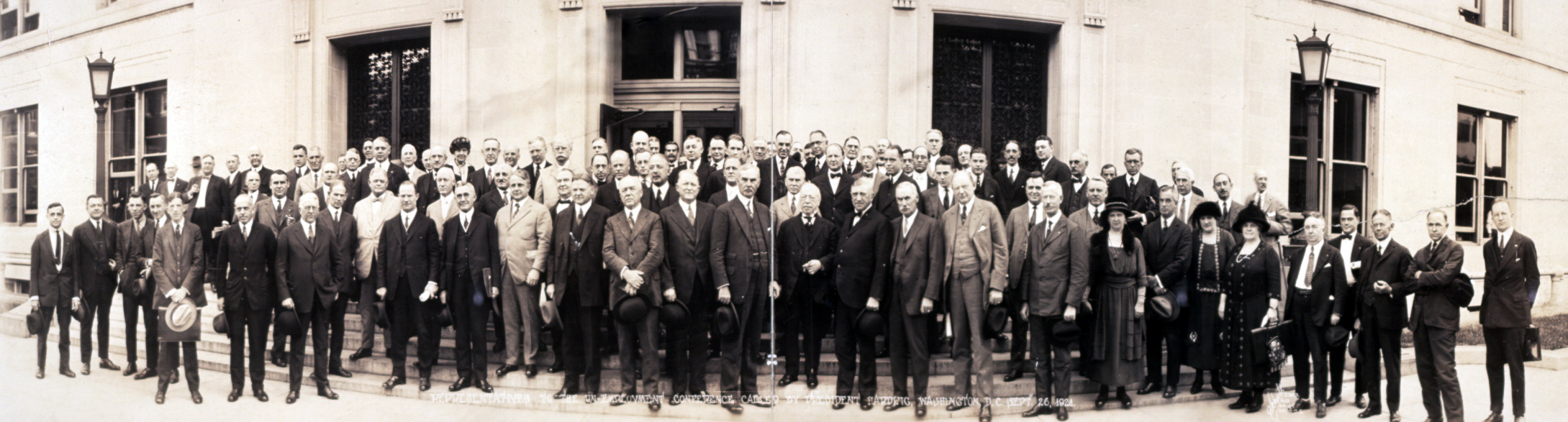 Representatives to the Conference on Unemployment The meeting was called by U.S. President Warren G. Harding in response to the 1921 recession.